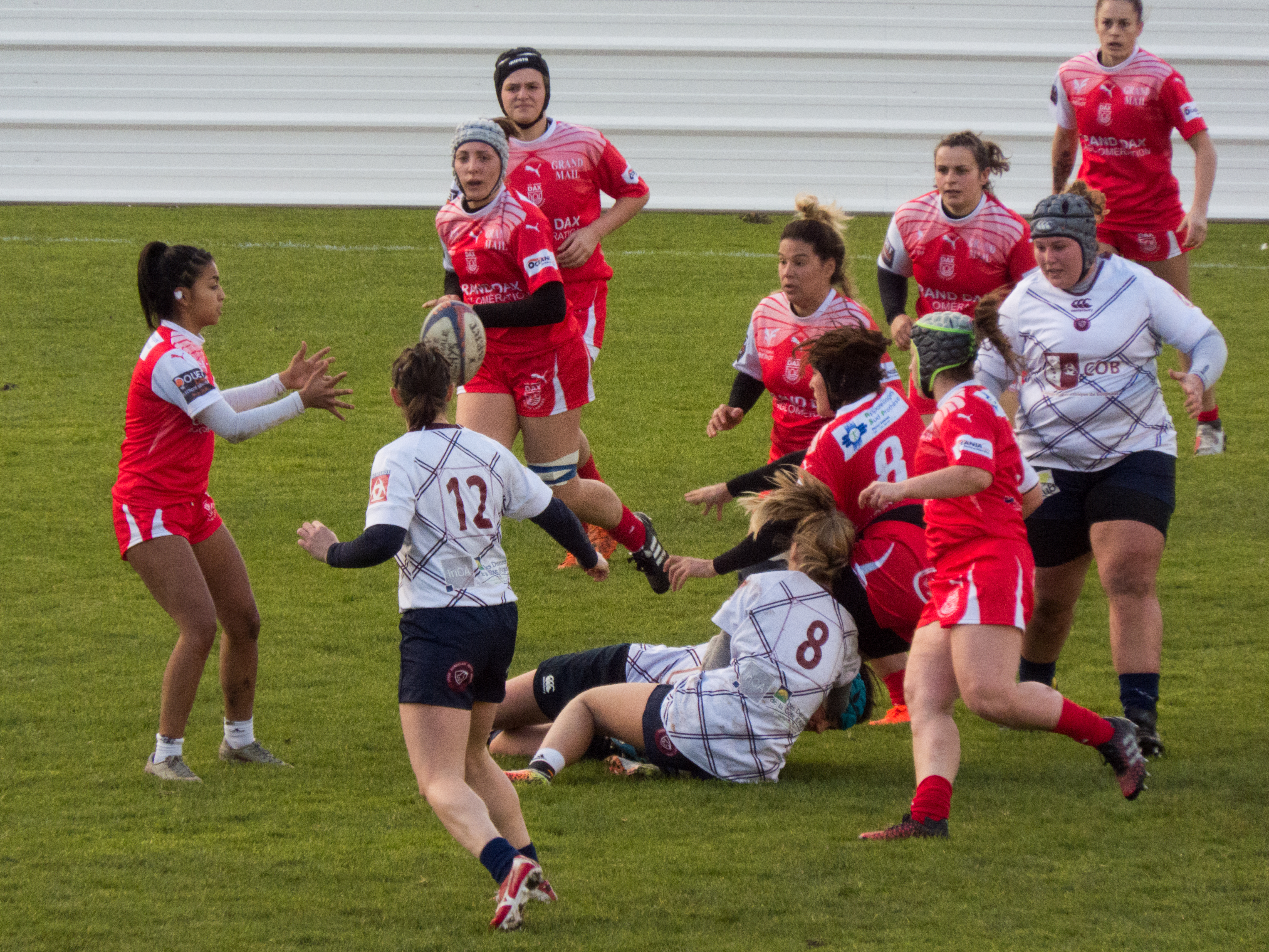 Q60050780 — 20 January 2019, stade Maurice-Boyau. Match between: Q3360155 — Q61746620